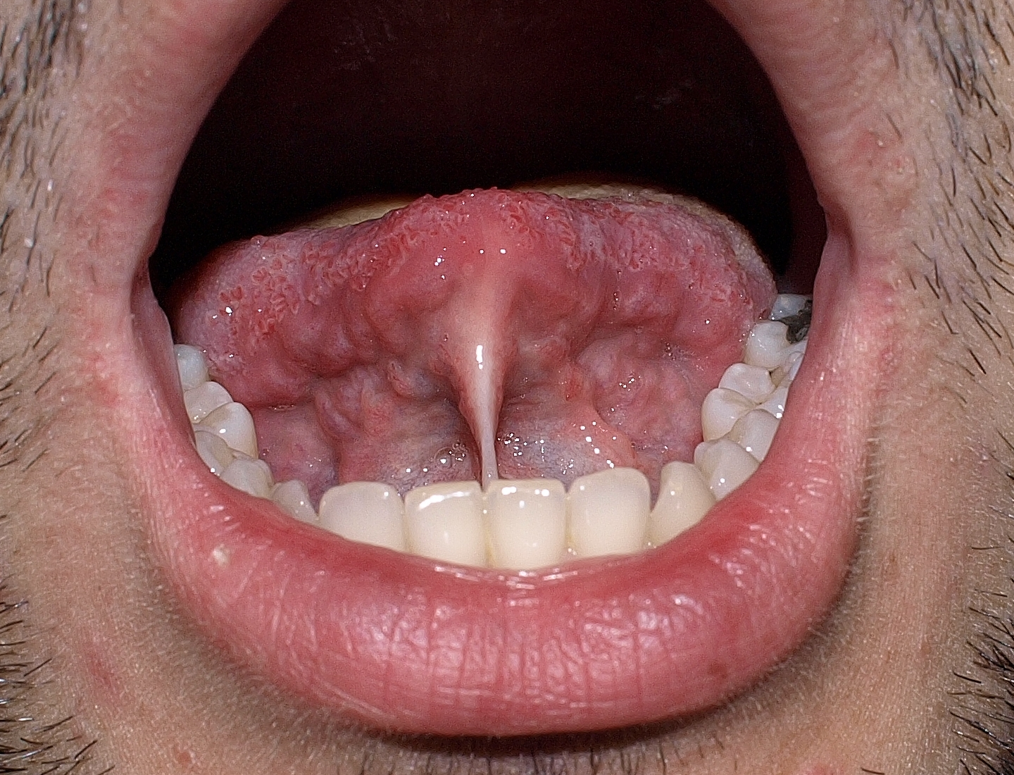 Frenulum linguae in 20-year-old man